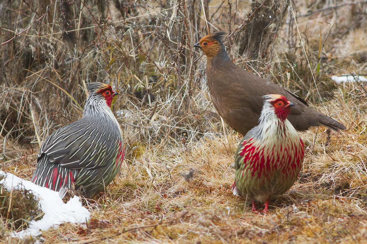 The species Blood Pheasant had been photographed during the birding tour of GoingWild in Phrumsingla National Park in Bhutan in the month of March 2017.